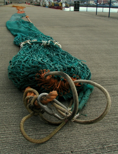 A close look at a fishing net, Bangor. The end of the net belonging to the 'Karima' (see 958865) on the Eisenhower Pier in Bangor. This is the end of the net where the fish end up at the end of a trawl. Closed when trawling, this end can be opened easily when hauled aboard the fishing boat to allow the fish to be dropped into the hold (avid viewers of the BBC programme 'Trawermen' should be familiar with this!). See also 958868.